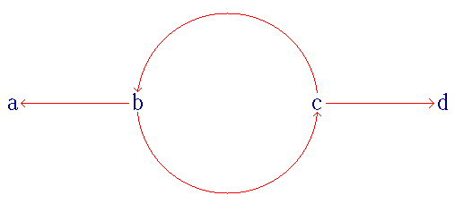 Shows a simple cyclic abstract rewriting system that is locally confluent, but not globally confluent. (By Newman's lemma, it is necessarily non-terminating.)